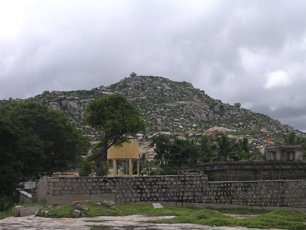 Kurudumale